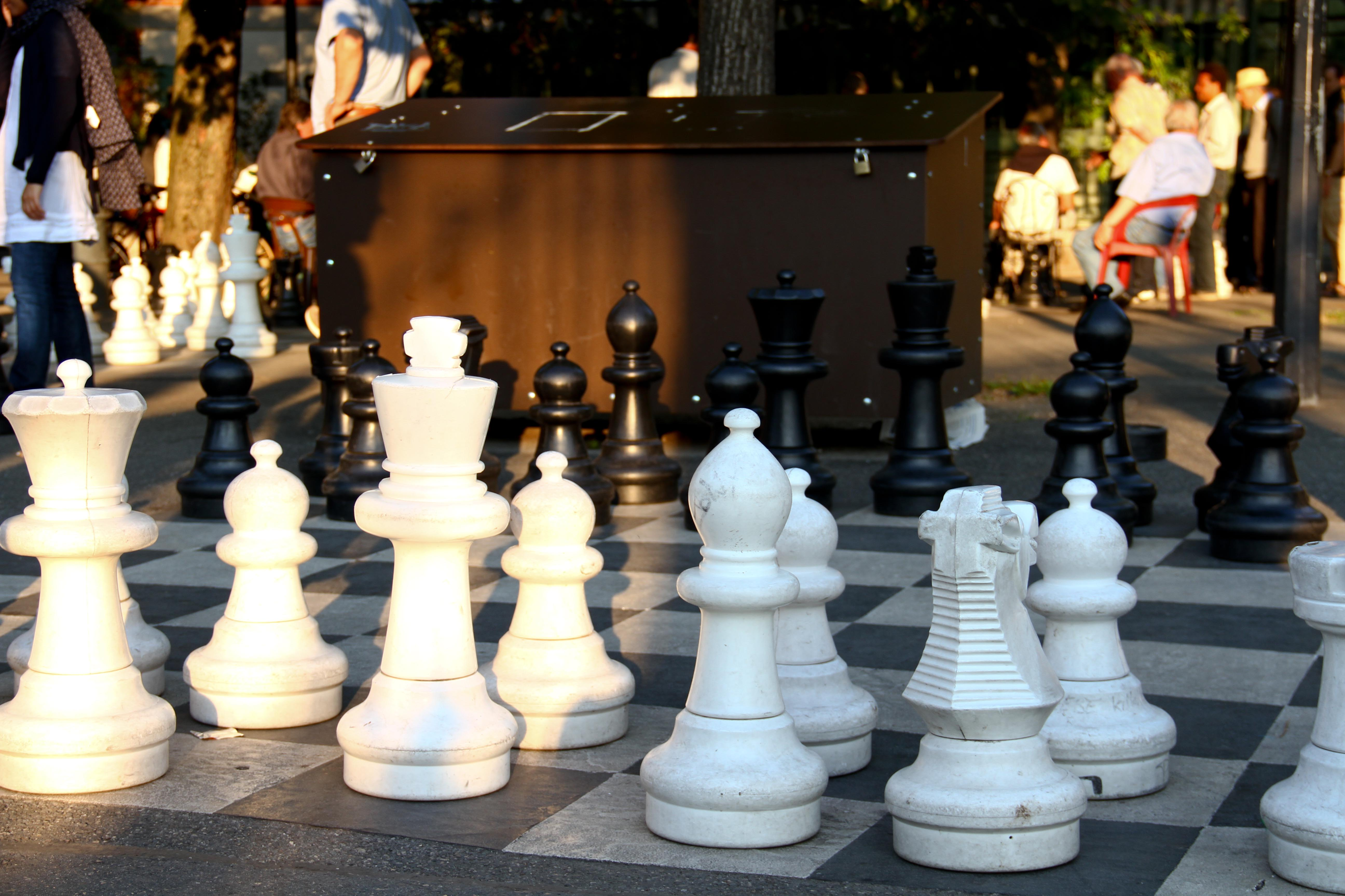 Park Bastion in Geneva